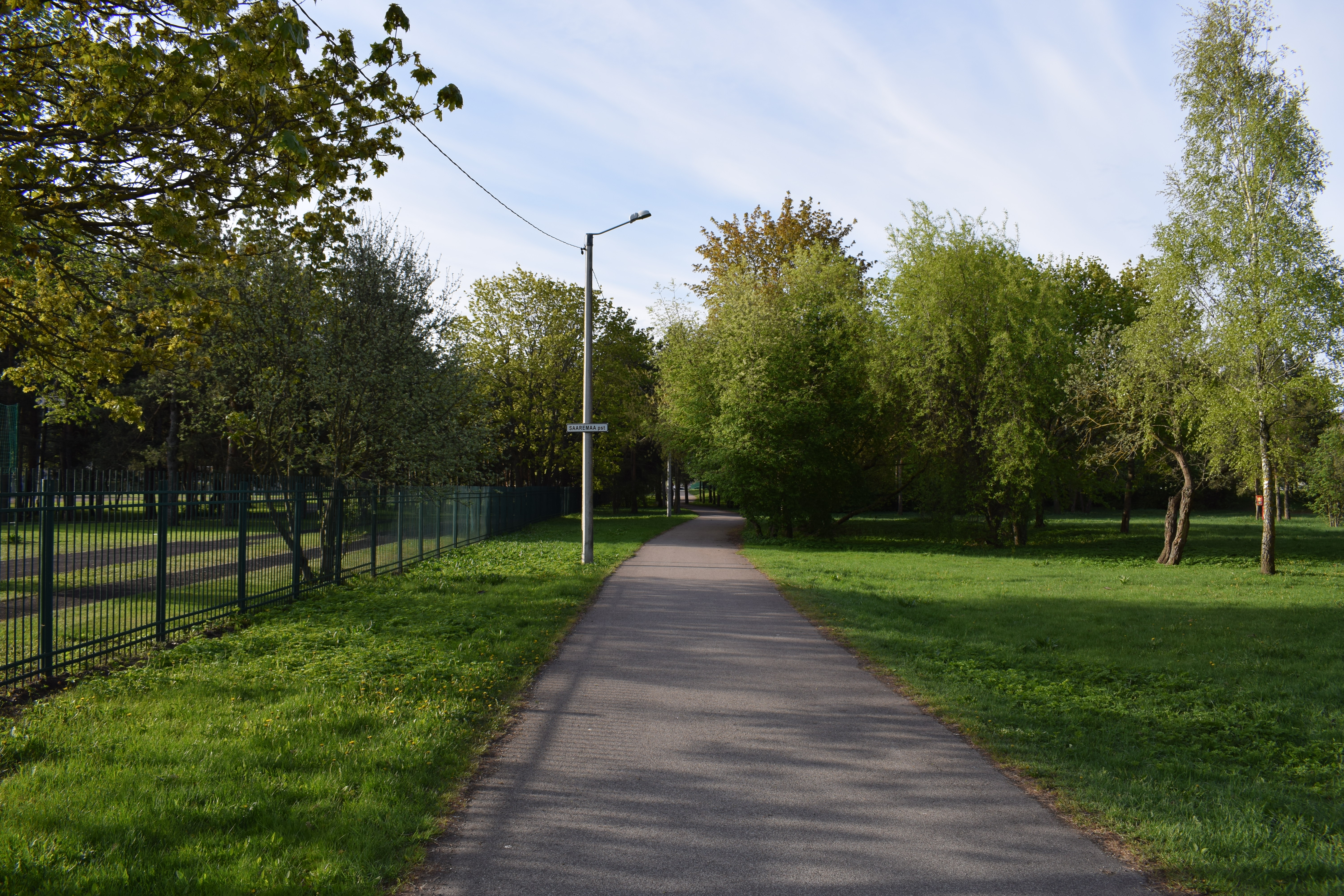 Saaremaa puiestee